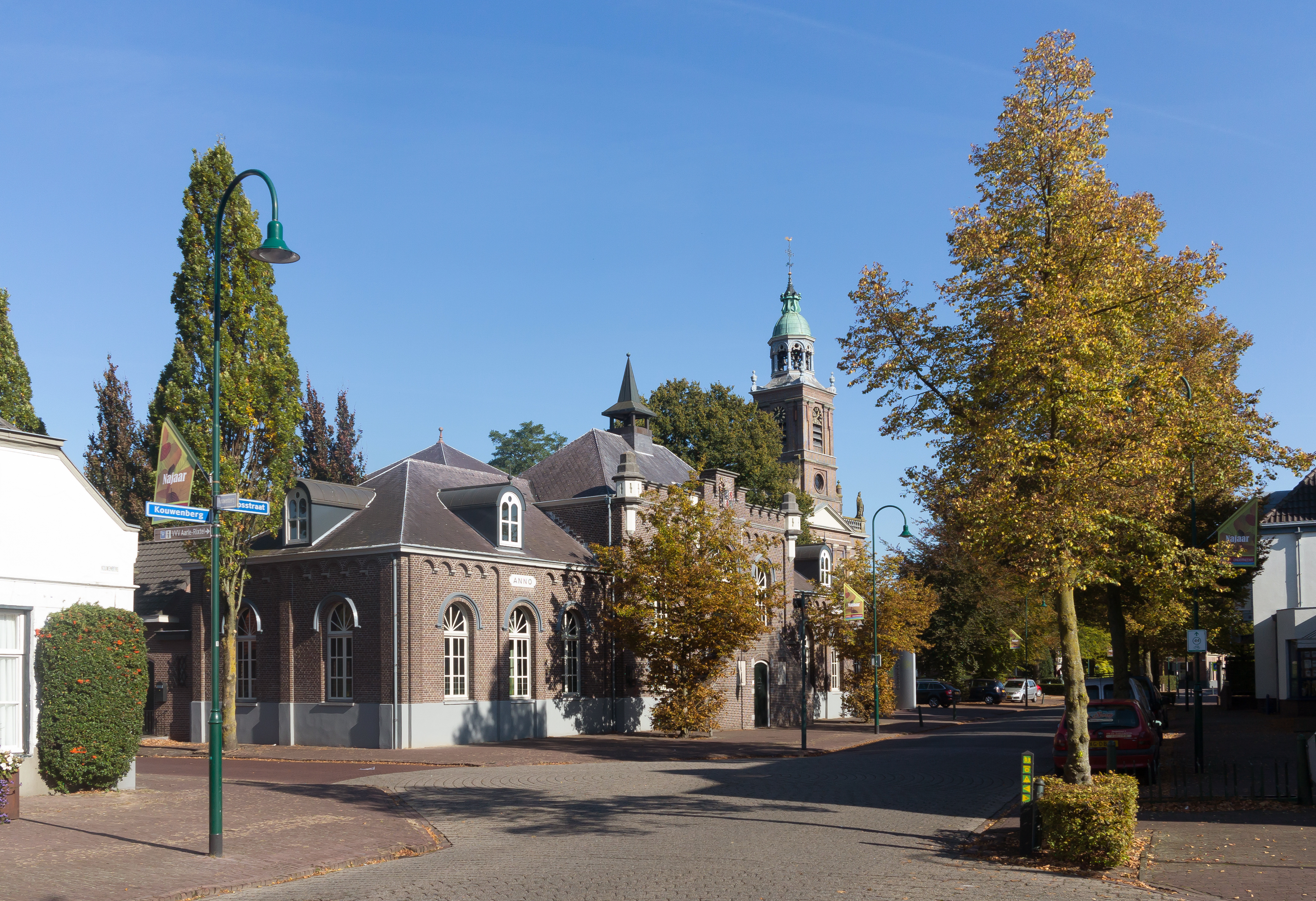 Aarle-Rixtel, view to a street: Kouwenberg-Dorpsstraat